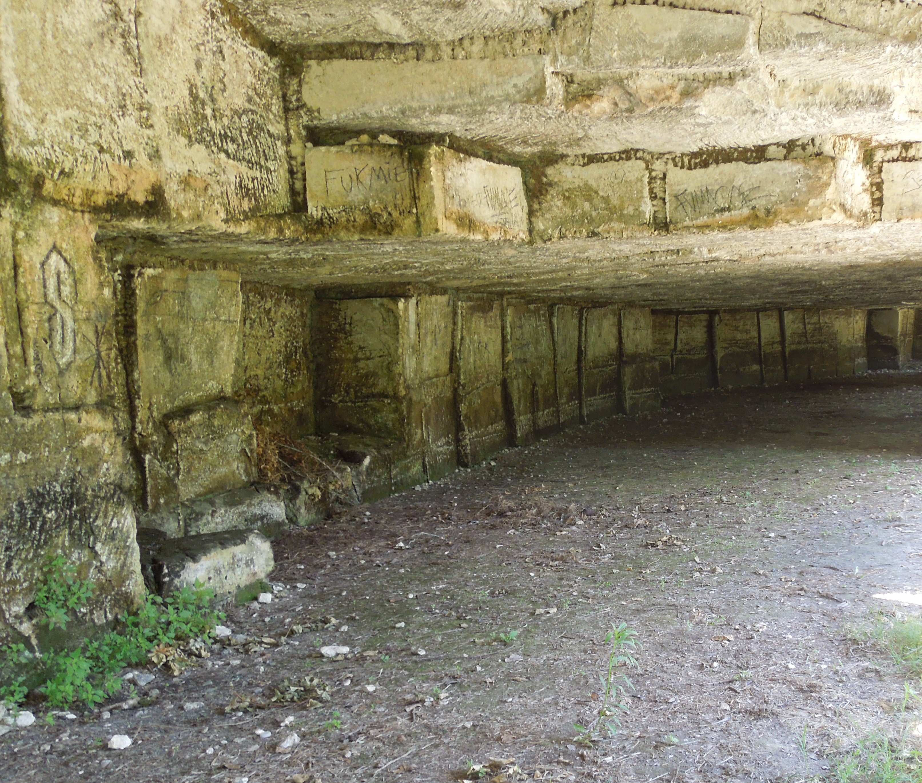 Grotto at the foot of the Cliffs of Cordis near Marignac, an ancient quarry maintained and sanctioned by the FFME as a rock climbing site